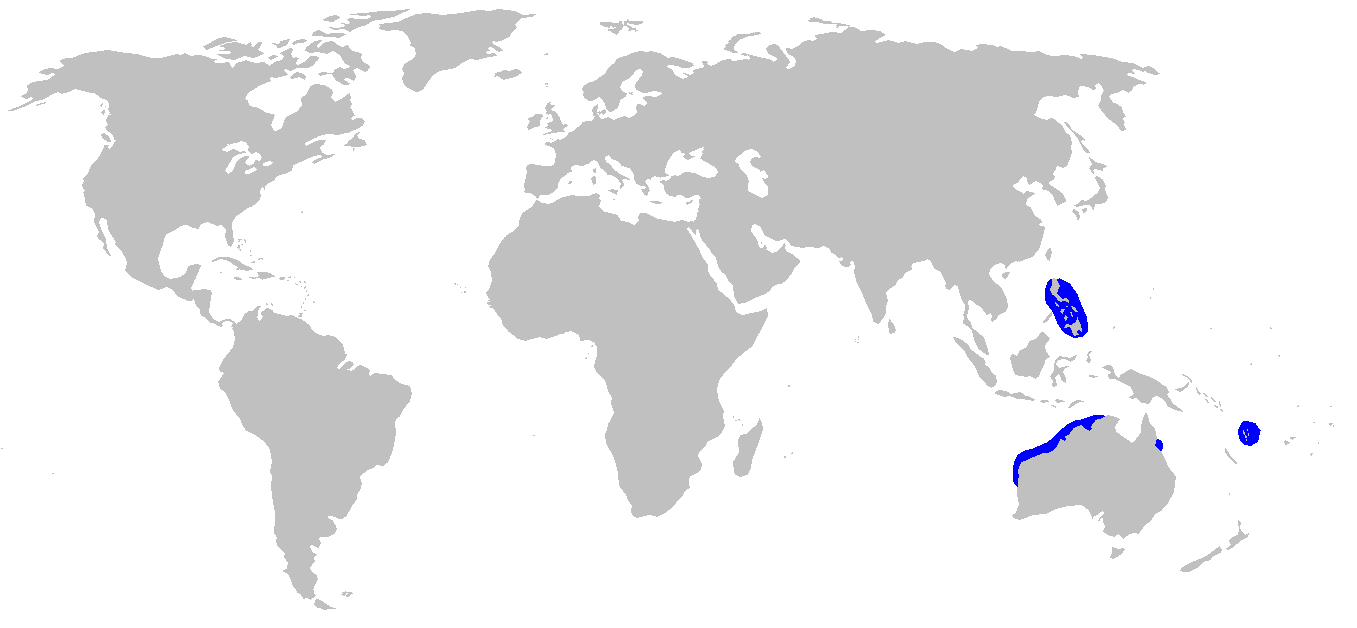 Distribution map for Iago garricki